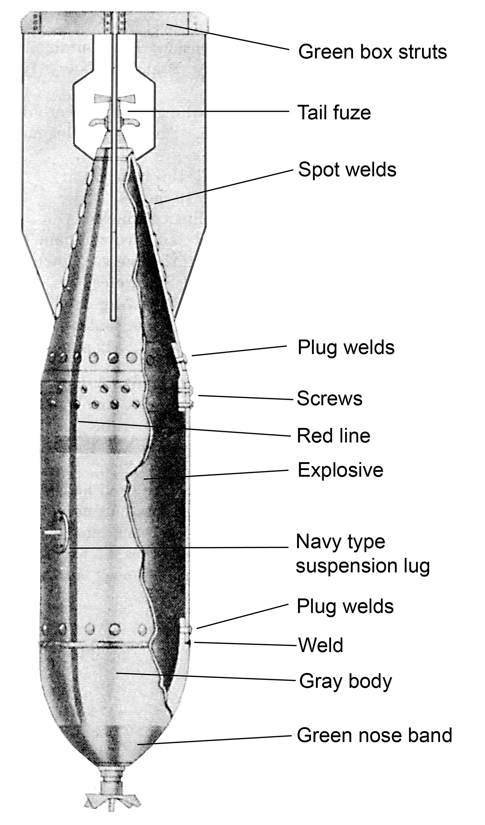 A diagram of a Japanese Navy World War II Type 98 No.25 532 lbs "Land bomb".